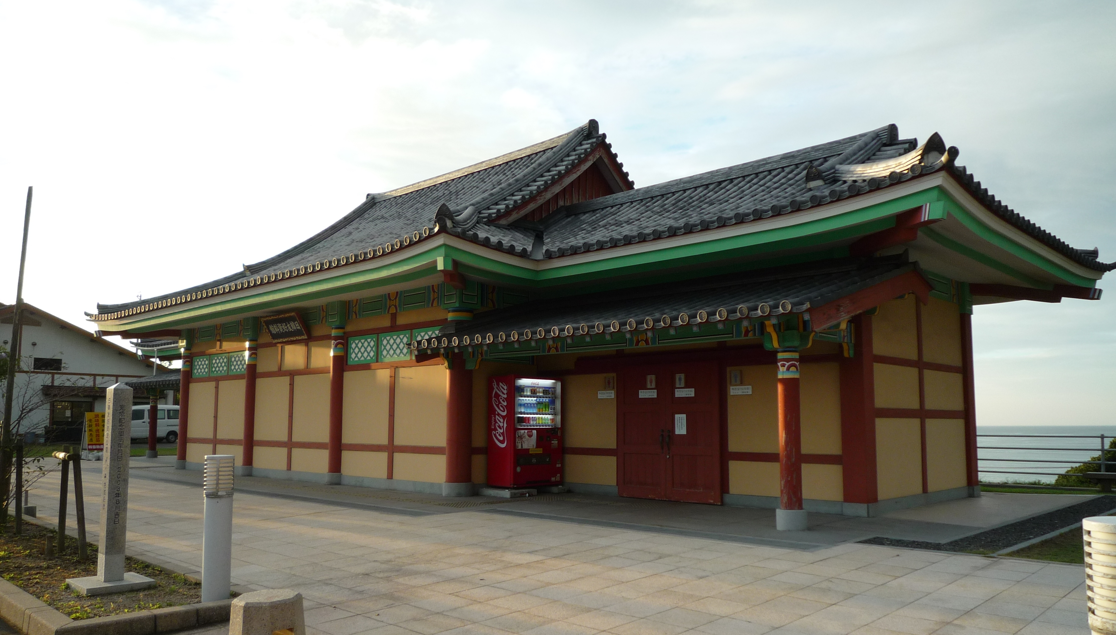 Japan-Korea Exchange Museum at Michinoeki Port Akasaki in Kotoura Town, Tottori Prefecture, Japan